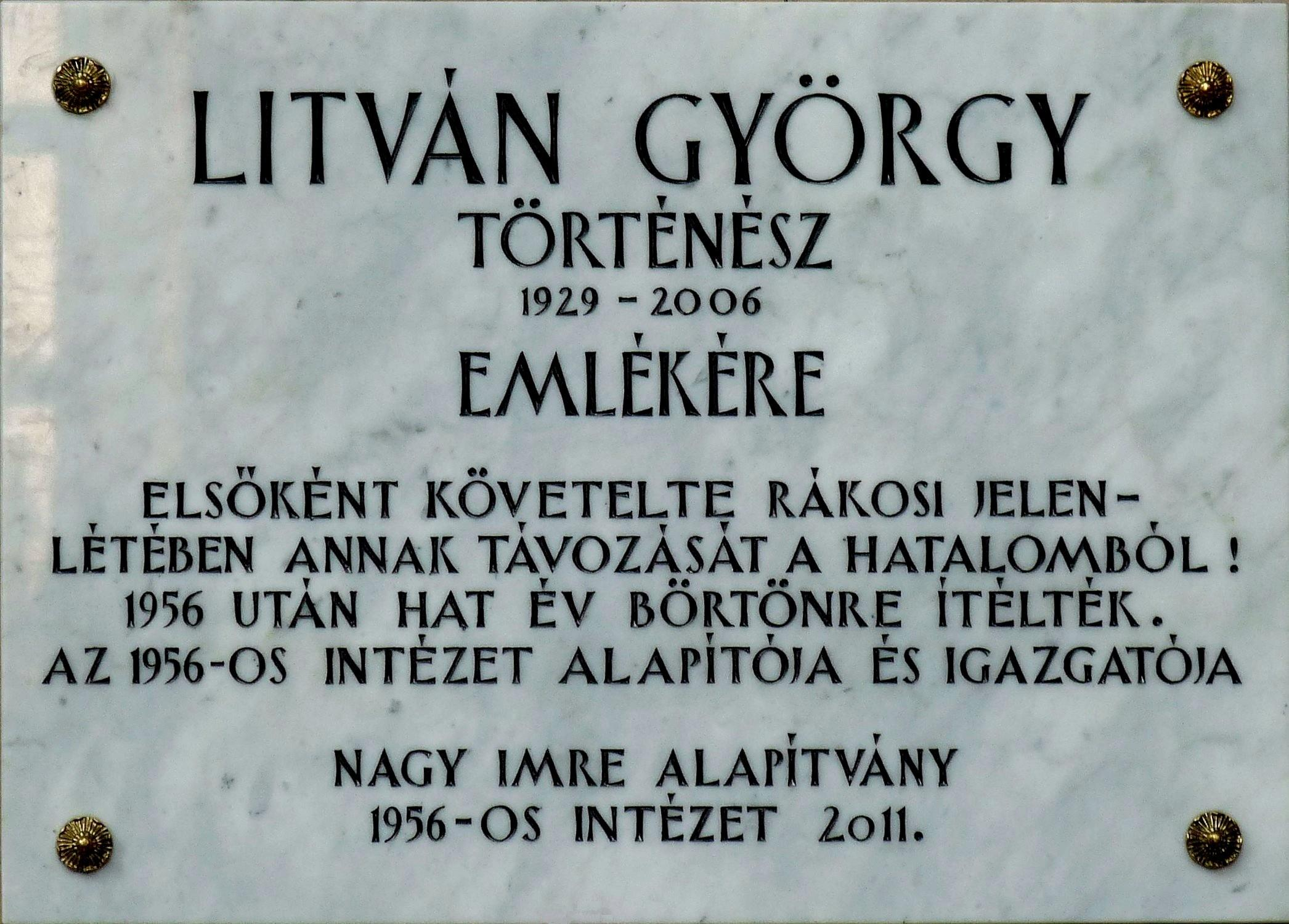 Commemorative plaque to Mr. György Litván (1929-2006) Hungarian historian. The plate made by Mr. Antal Czinder was affixed and unveiled at the entrance of his former house on November 8, 2011. (Budapest, District XIII, Pozsonyi Avenue Nr 40).